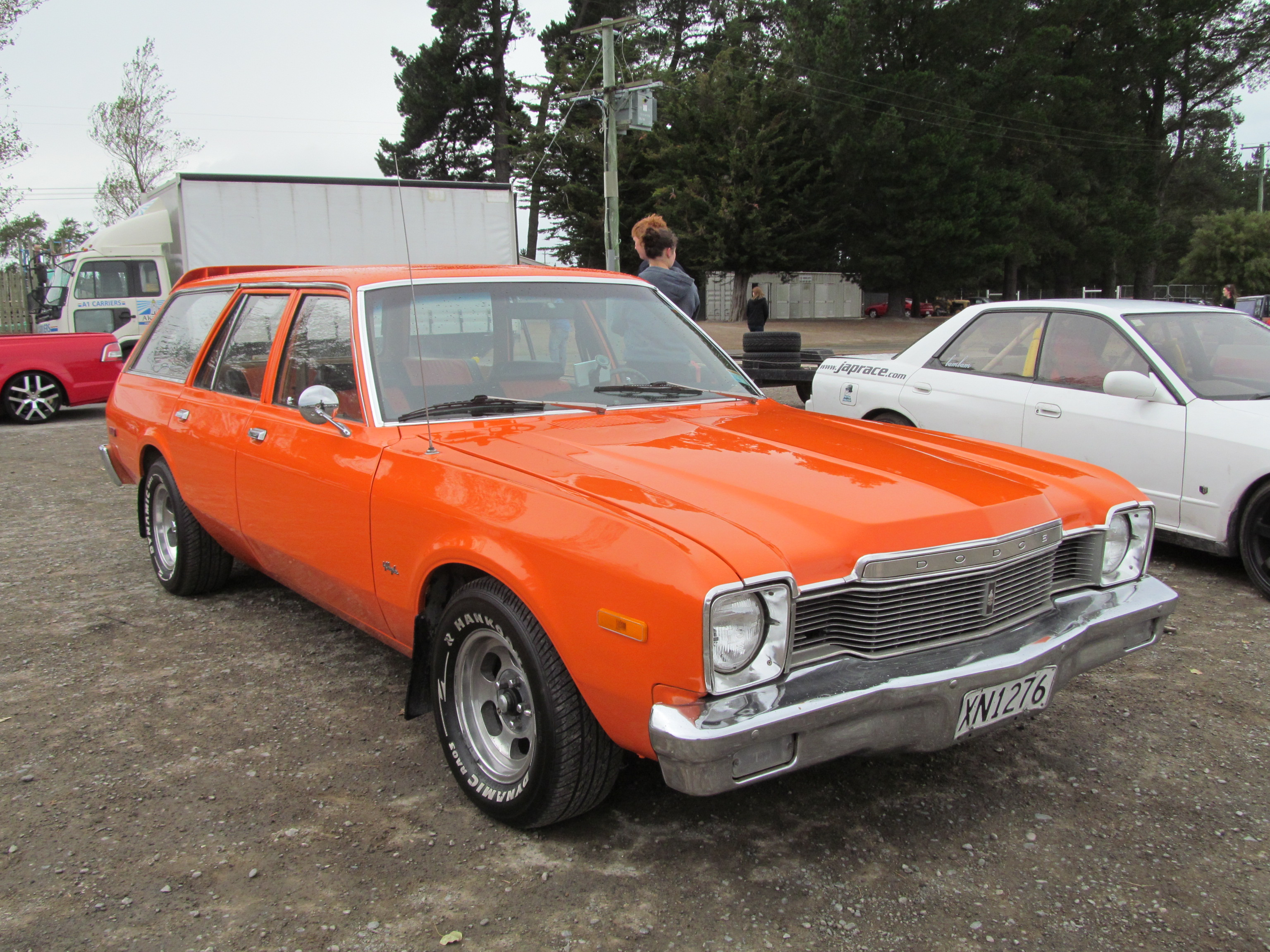 An unusual and rather obscure choice of import here - I don't recall seeing any other F-bodies here before (the Aspen's Plymouth twin being the Volare.) The smallest engine available in one of these was a 3.7-litre six, yet CarJam lists it as a 3.3. I wouldn't be surprised if this had a Hemi in it to be honest. It has apparently been here since 1979.